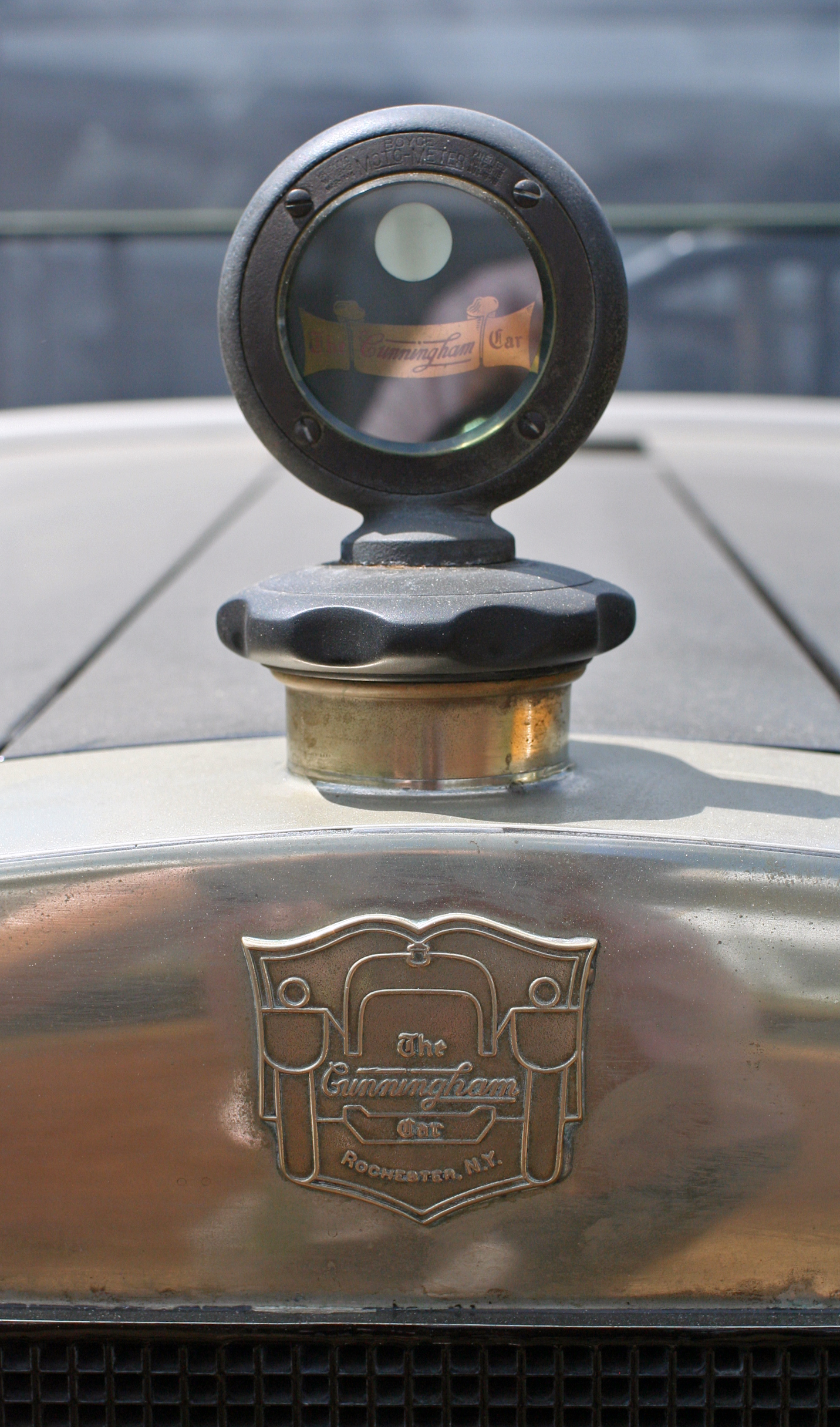 Grille of 1922 Cunningham V4.